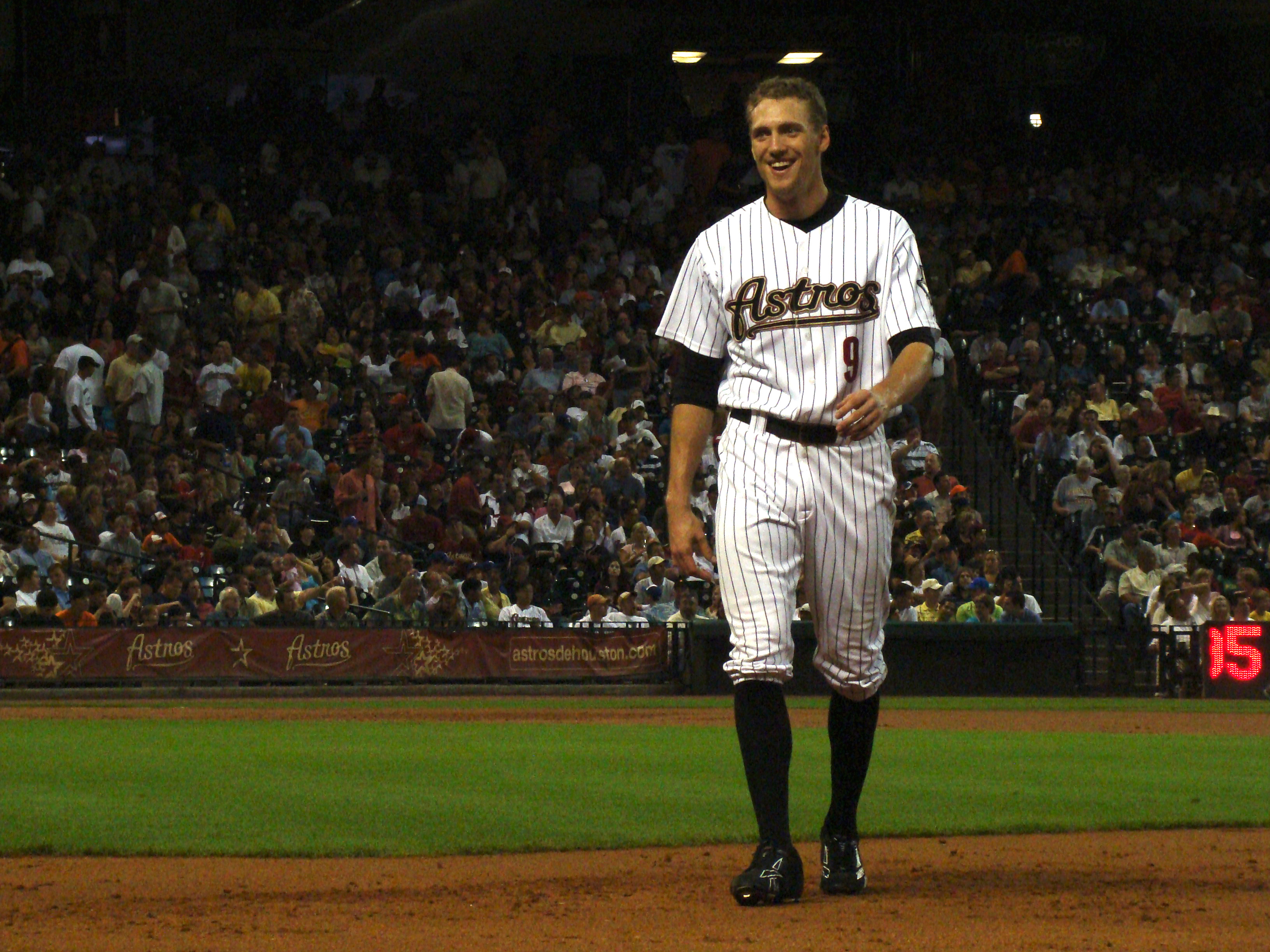 Hunter Pence smiling. Image was also released by author on Flickr, under "All rights reserved".